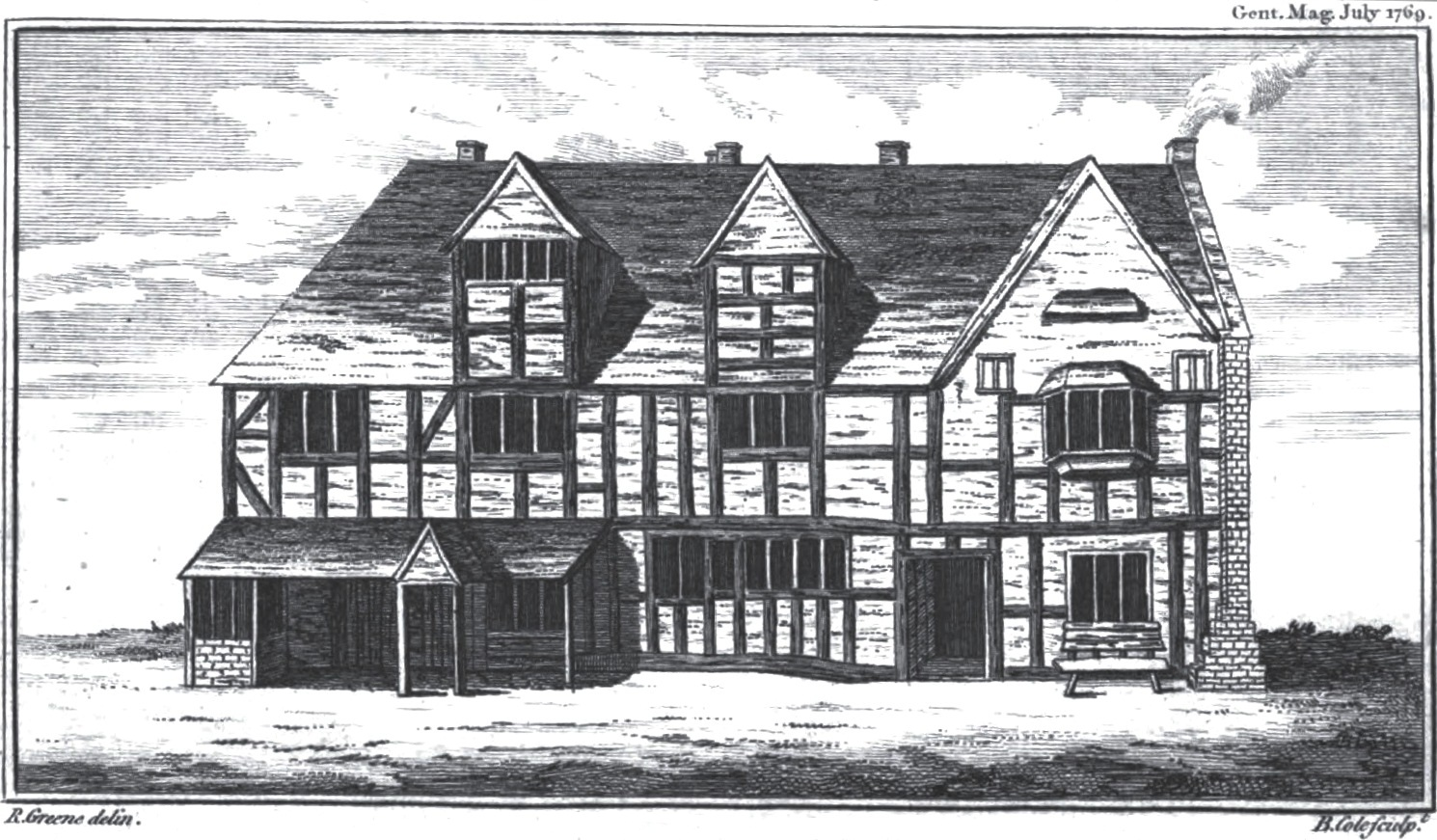 Engraving of Shakespeare's birthplace as it appeared in 1769.